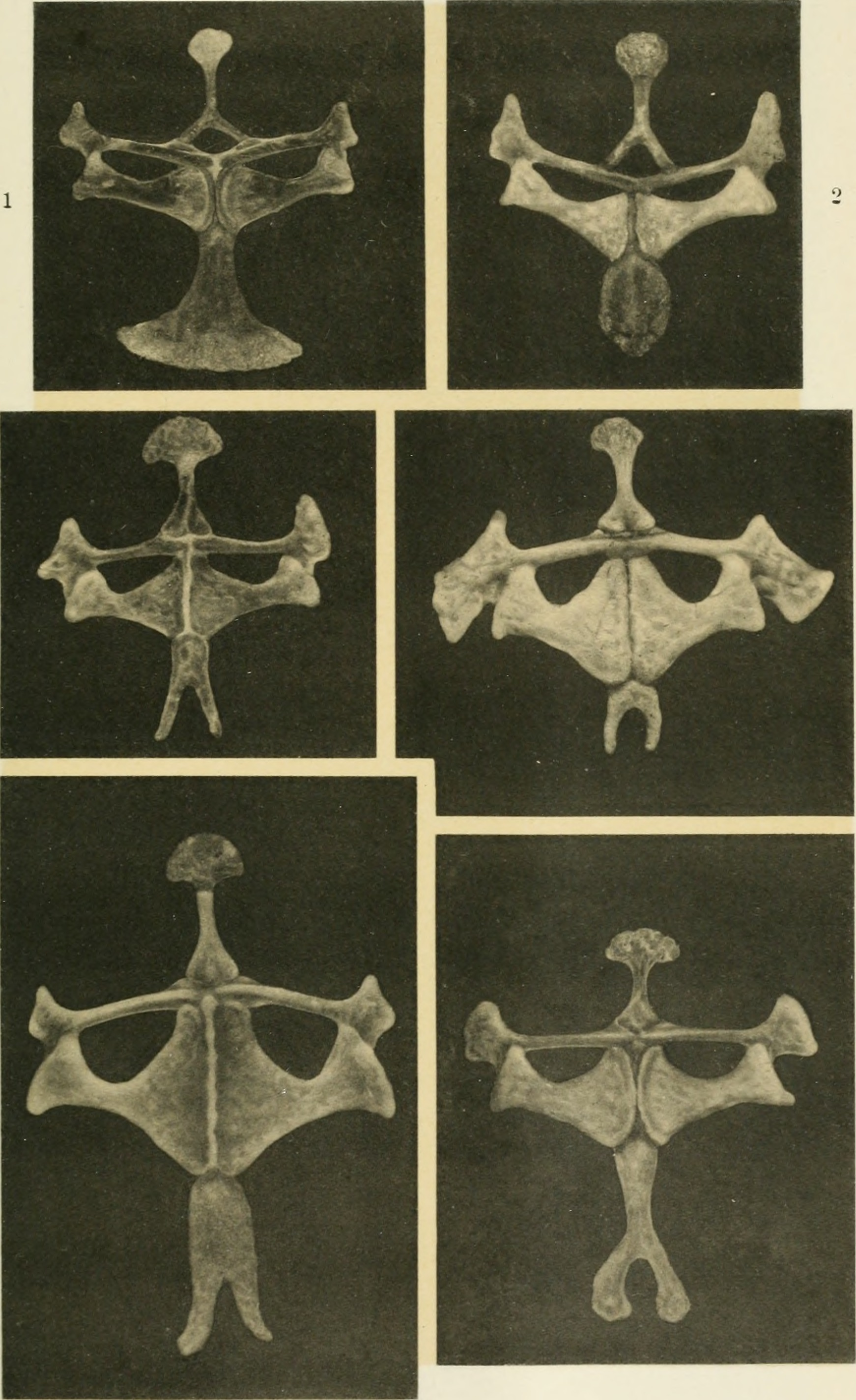 Title: Bulletin of the American Museum of Natural History Year: 1881 (1880s) Authors: Allen, J. A. (Joel Asaph), 1838-1921; American Museum of Natural History Subjects: Natural history; Science Publisher: New York : (American Museum of Natural History) Text Appearing Before Image: Bllletin a. .M. N. H. \oL. XLIX, Plate XXXl Text Appearing After Image: '